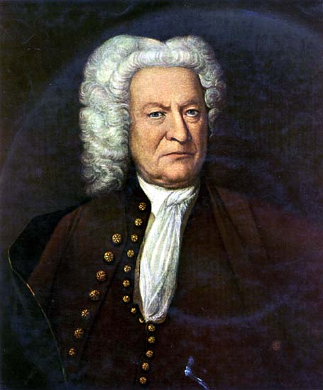 Portrait, possibly of Johann Sebastian Bach, the 'Volbach Portrait'. Discussion of authenticity by art historian and expert on Bach portraits Teri Noel Towe: [1] (archive URL).